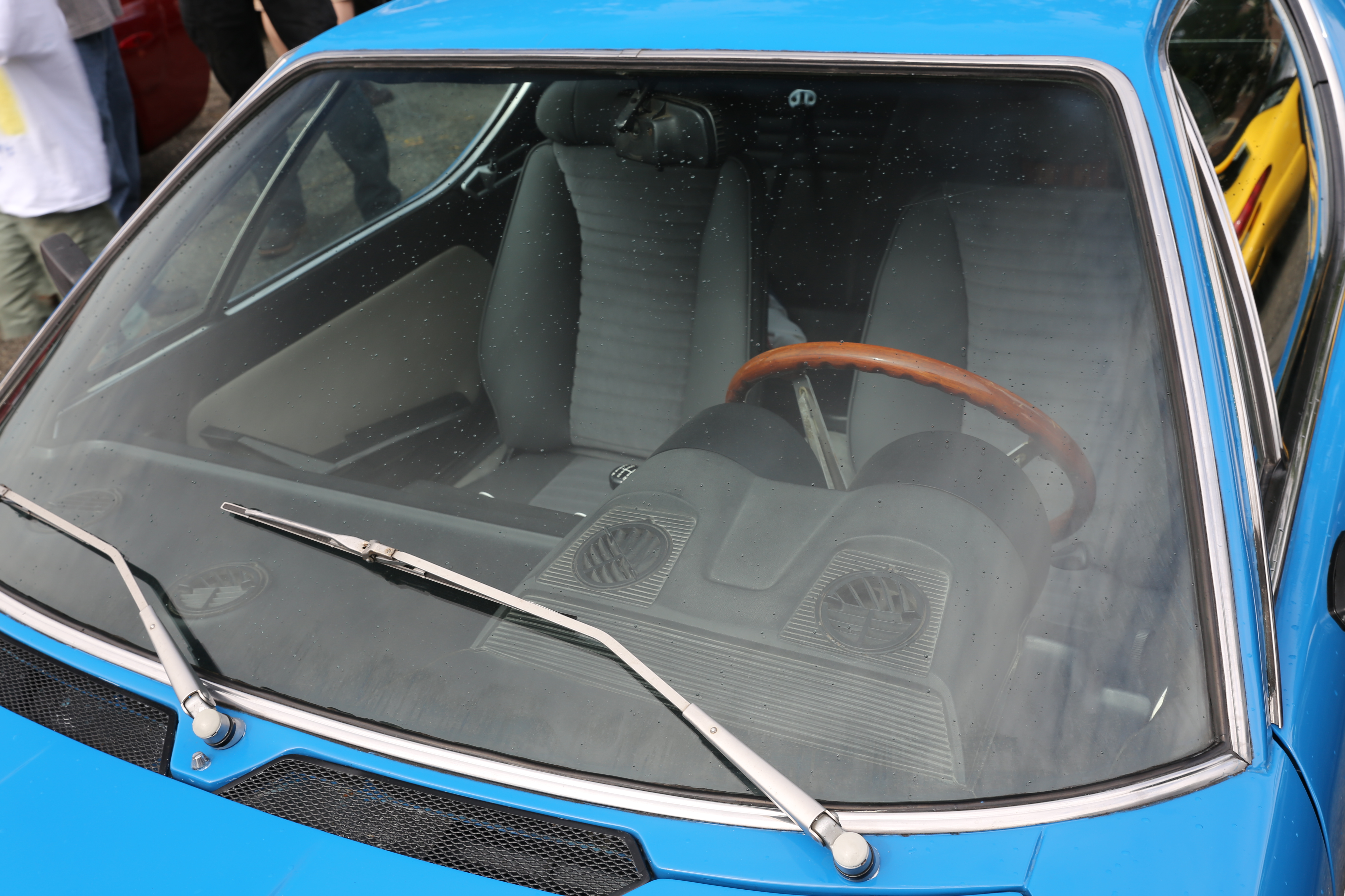 I love this car. Uncommonly nice in blue. All of the vents on top of the dashboard are interesting looking.